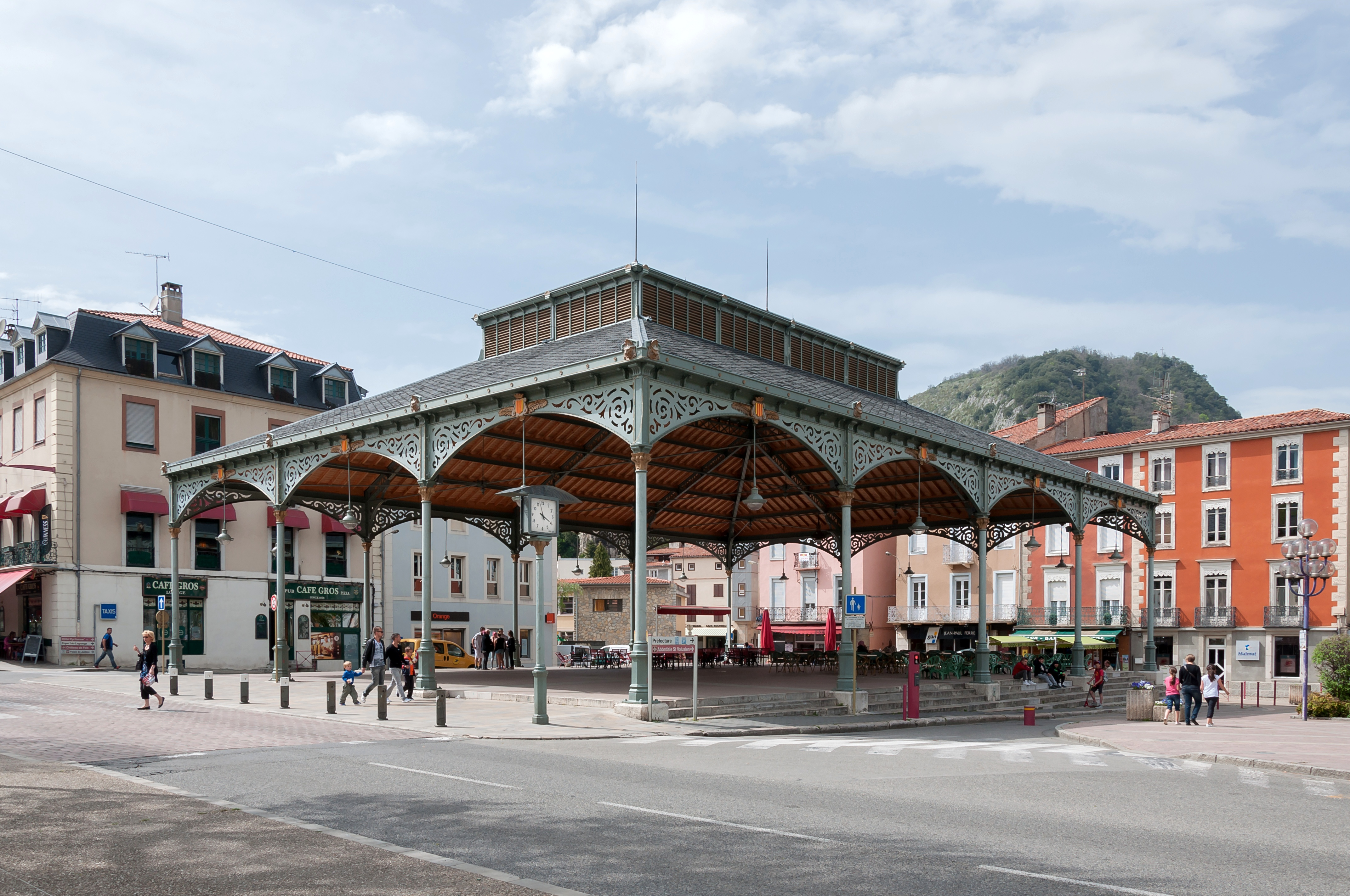 The "halle aux grains" was erected in 1870 and is still used as market hall.